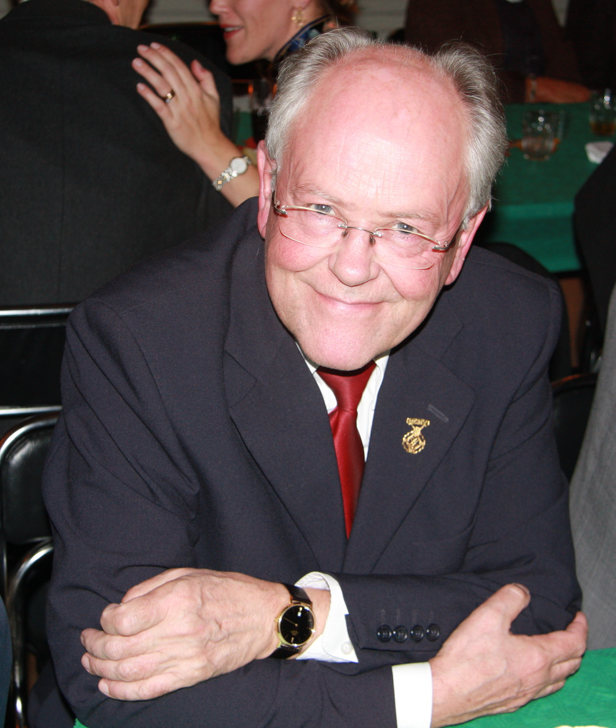 Göte Widlund at Stockholms Studentsångares årsmöte at Kristinehovs malmgård